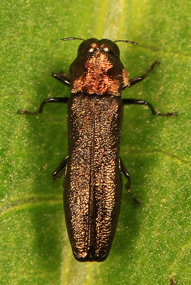 Red-necked Cane Borer - Agrilus ruficollis, SERC, Edgewater, Maryland. 6/6/2015 Anne Arundel County